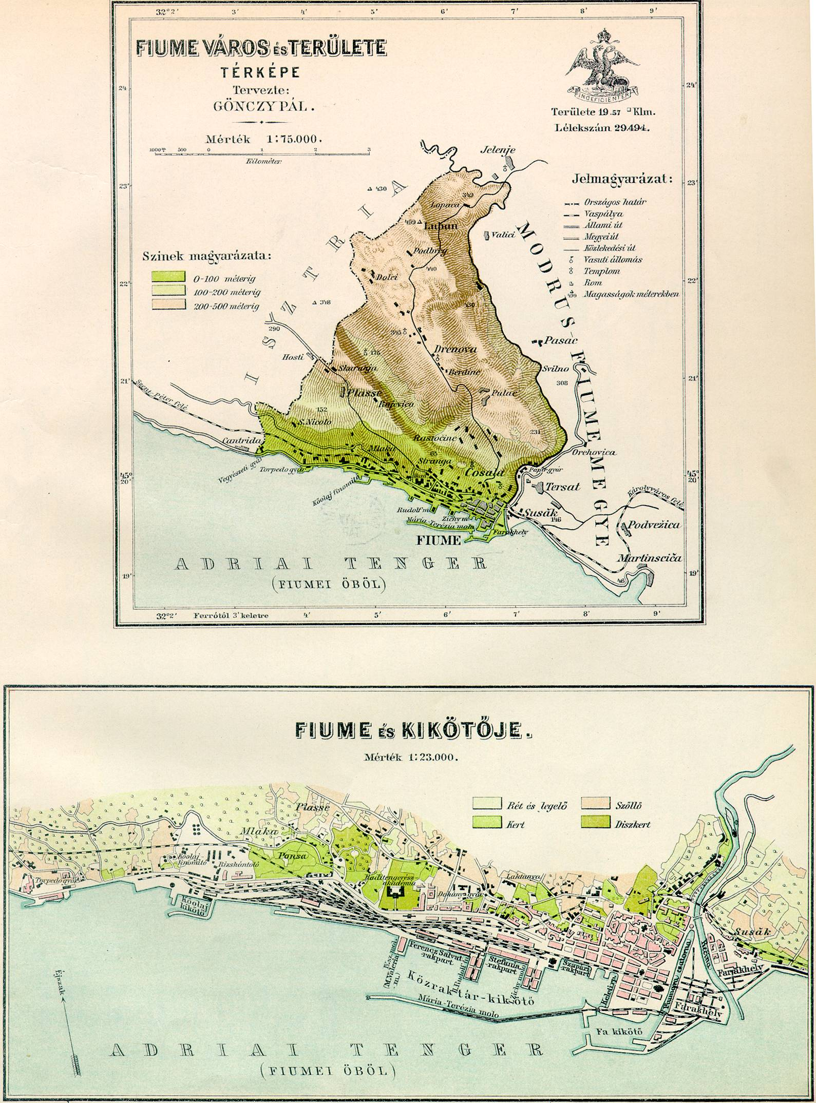 Map of Fiume város (town of Rijeka) around 1890